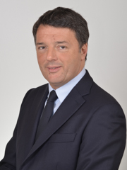 Matteo Renzi, Italian politician